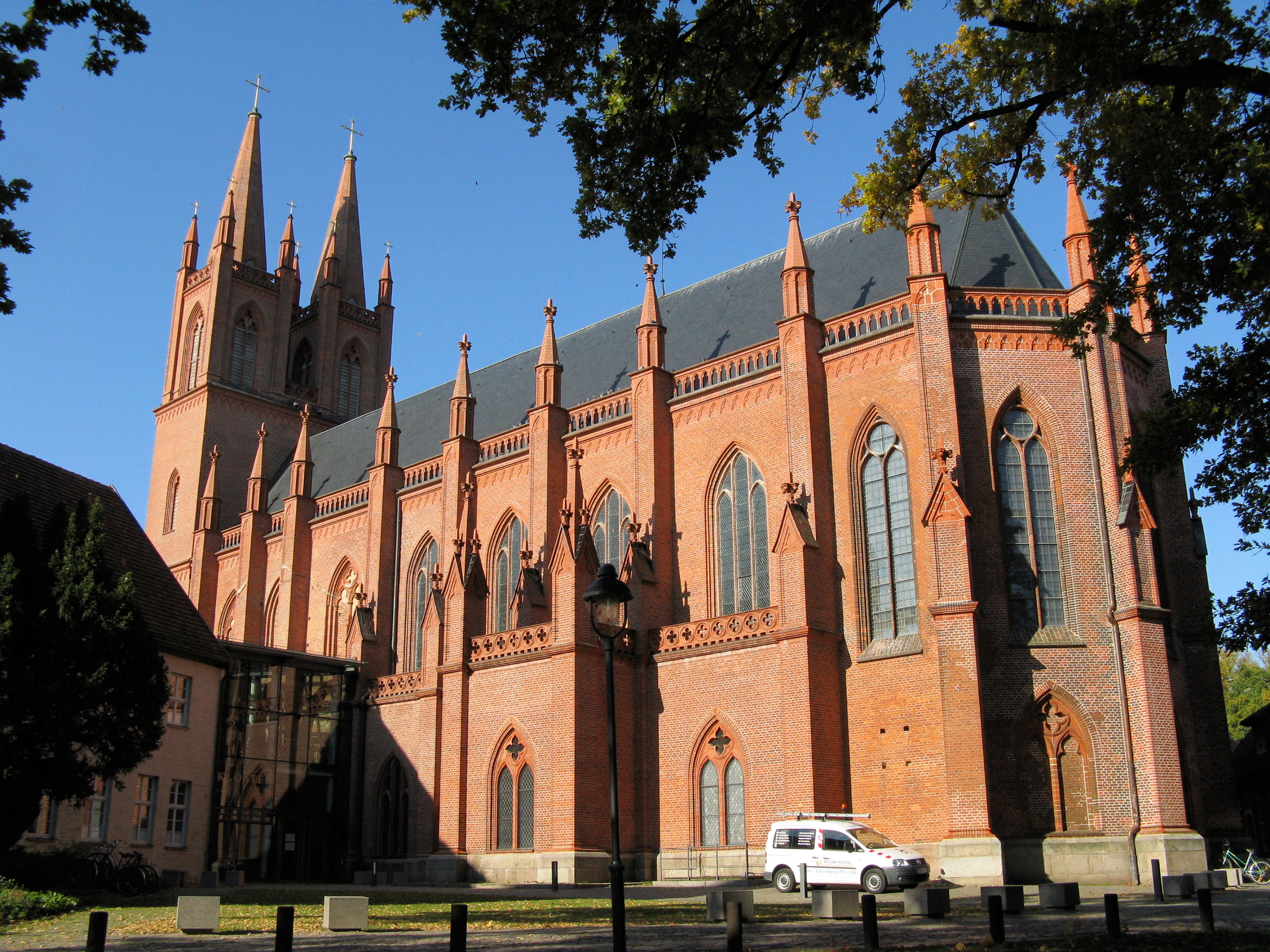 Church in the Monastery Dobbertin, disctrict Parchim, Mecklenburg-Vorpommern, Germany